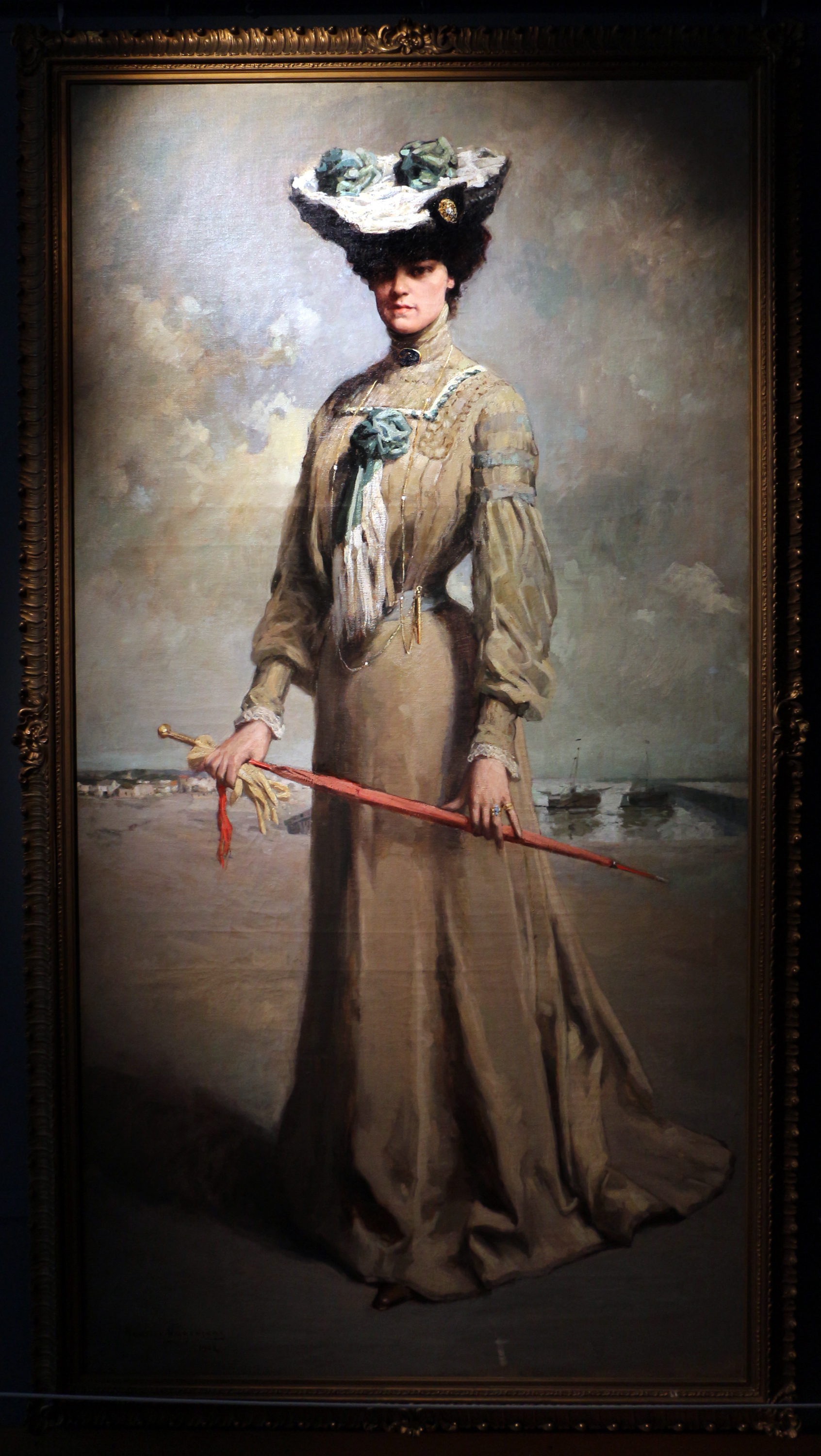 Museum of Ixelles